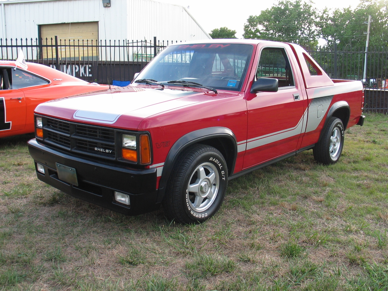 1989 Dodge Dakota Shelby (Red paint version)